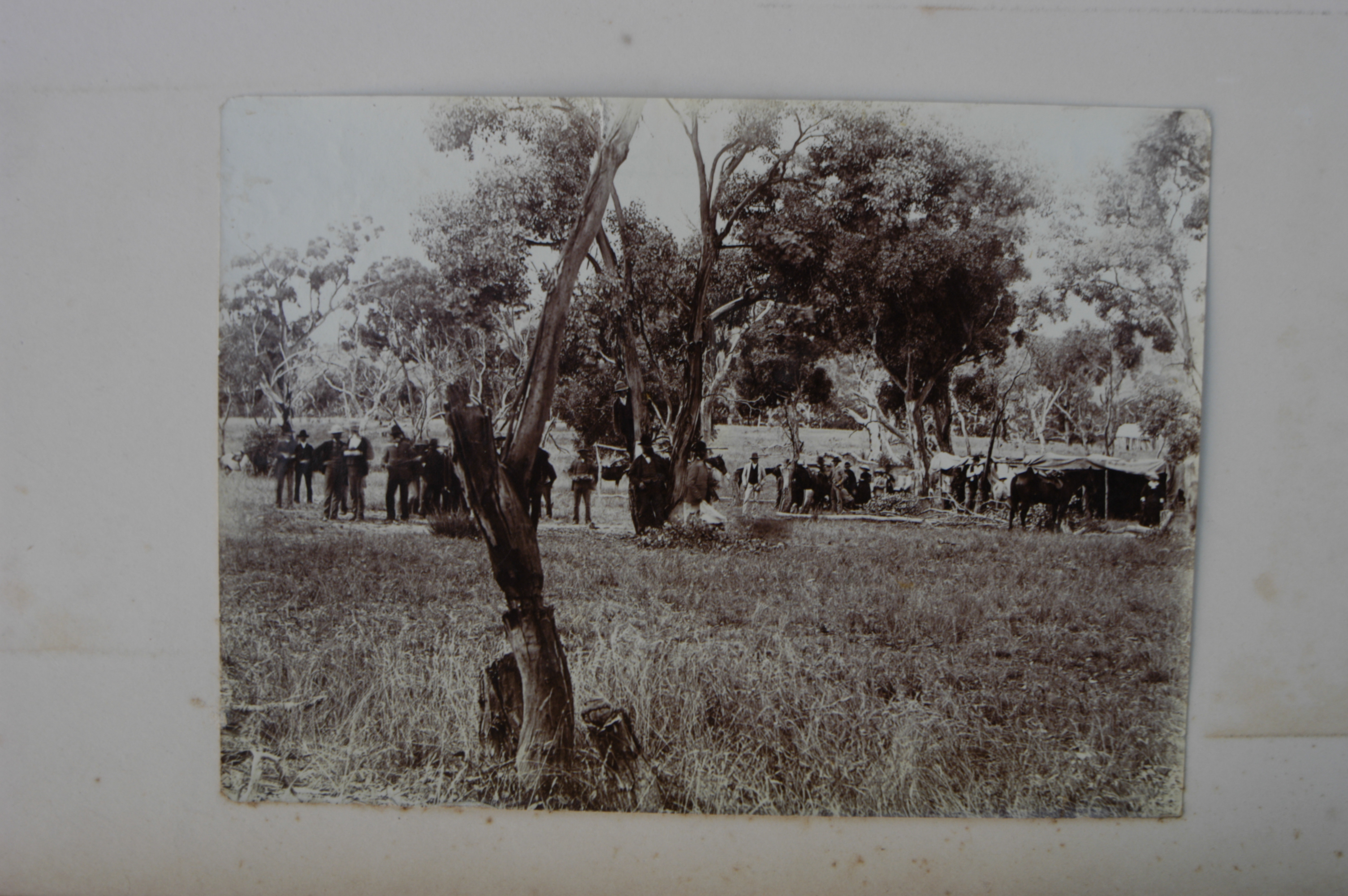 Gum trees and workers, a De Salis collection photo of Australia circa 1880. (Photo of photo by me Rodolph (talk) 23:57, 26 October 2013 (UTC)).